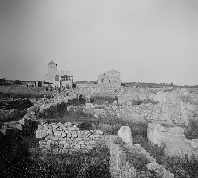 Aspect of the Convent of Santa Maria de Gracia and Empúries Empúries ruins in 1923. Stereoscopic glass plate, 6x13 cm. Fund Salvany SaP_725_02. Camera: Hasselblad